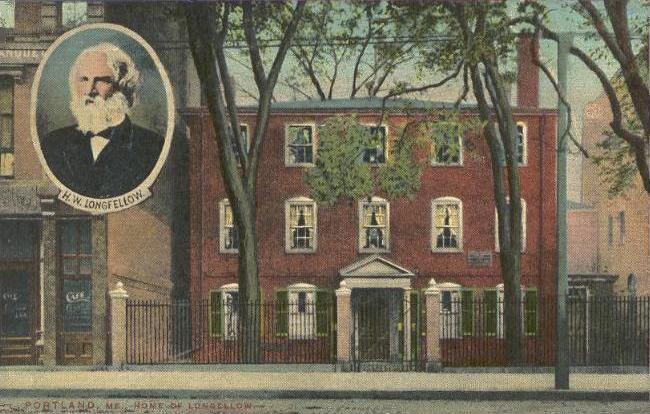 Wadsworth-Longfellow House, Portland, ME; from a c. 1910 postcard. Built by General Peleg Wadsworth in 1785-1786, it was the boyhood home of Henry Wadsworth Longfellow, poet. It is now a museum operated by the Maine Historical Society.